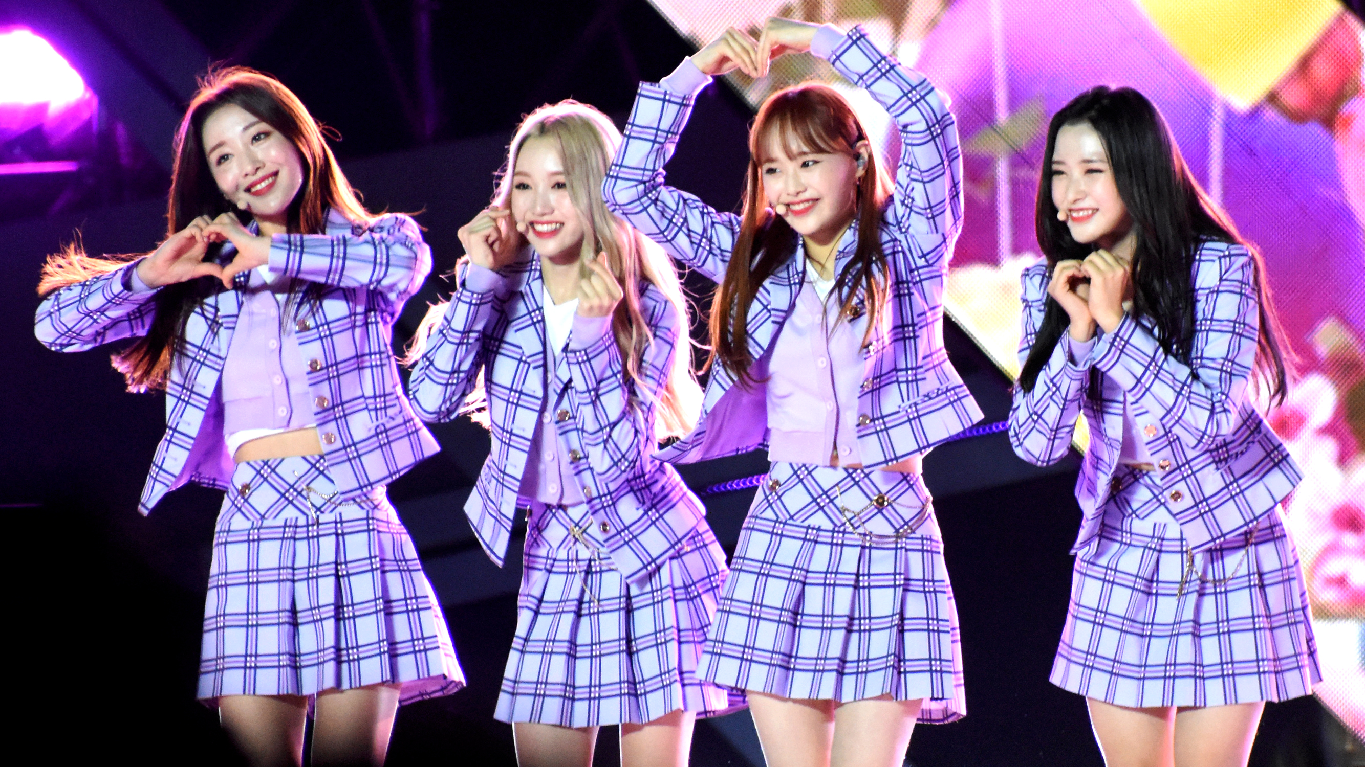 Loona yyxy at the 2018 Incheon Airport Sky Festival on September 2, 2018.